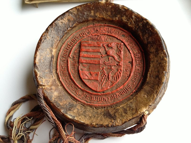 The seal of Ladislaus the Posthumous. Waralaya privilege 1.05.1456 BUDA . The red wax attached seal (Ø 70 mm) in a wax shell (Ø 100 mm). Private collection.